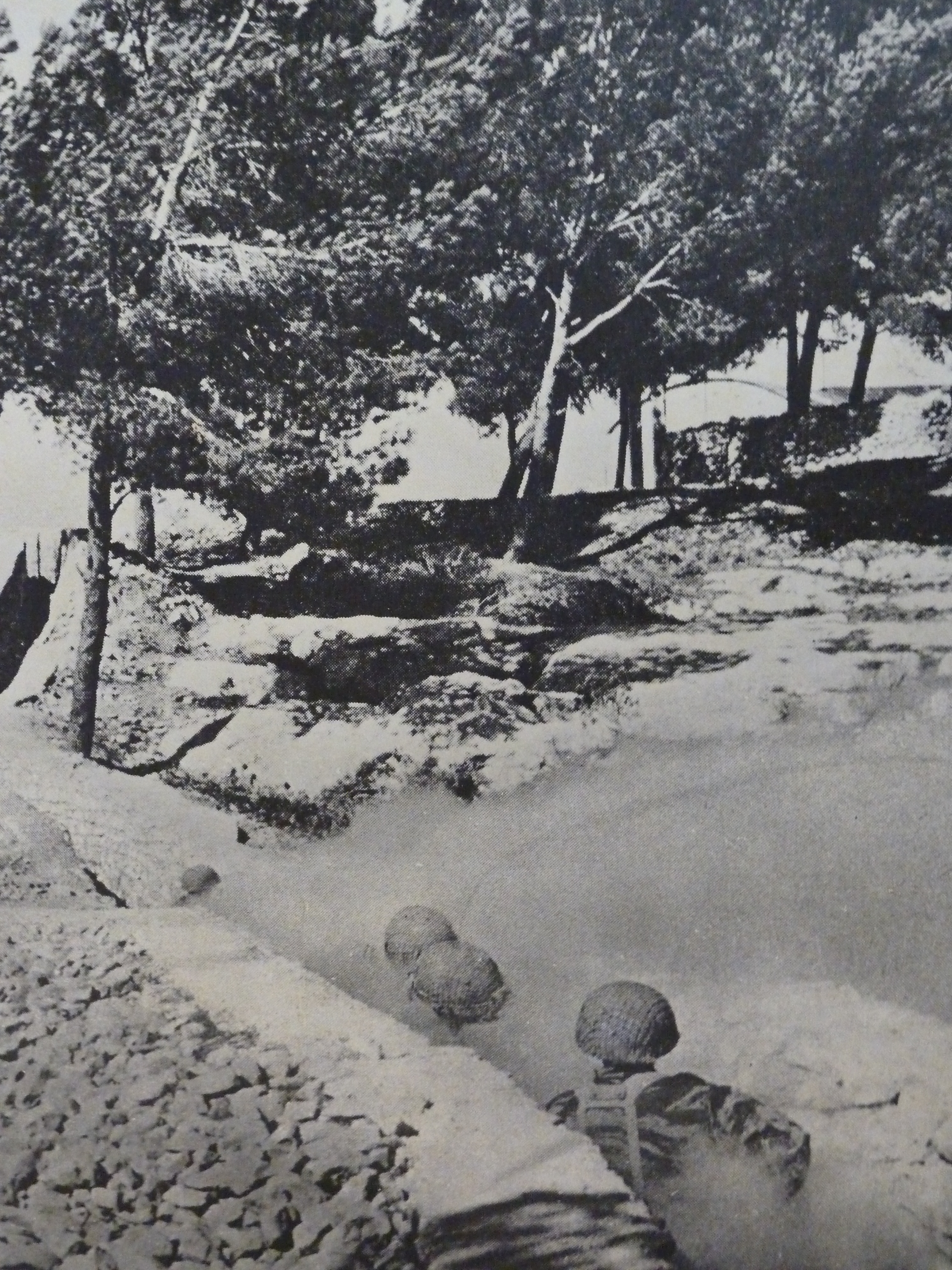 Ammunition Hill Museum Exhibits, Historic Images of Jerusalem